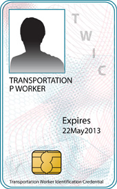 A sample rendering of a TSA/USCG Transportation Worker Identification Credential (TWIC).